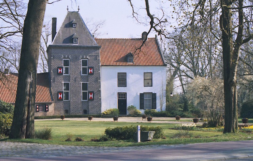 The "Little Castle" in Deurne (Netherlands)